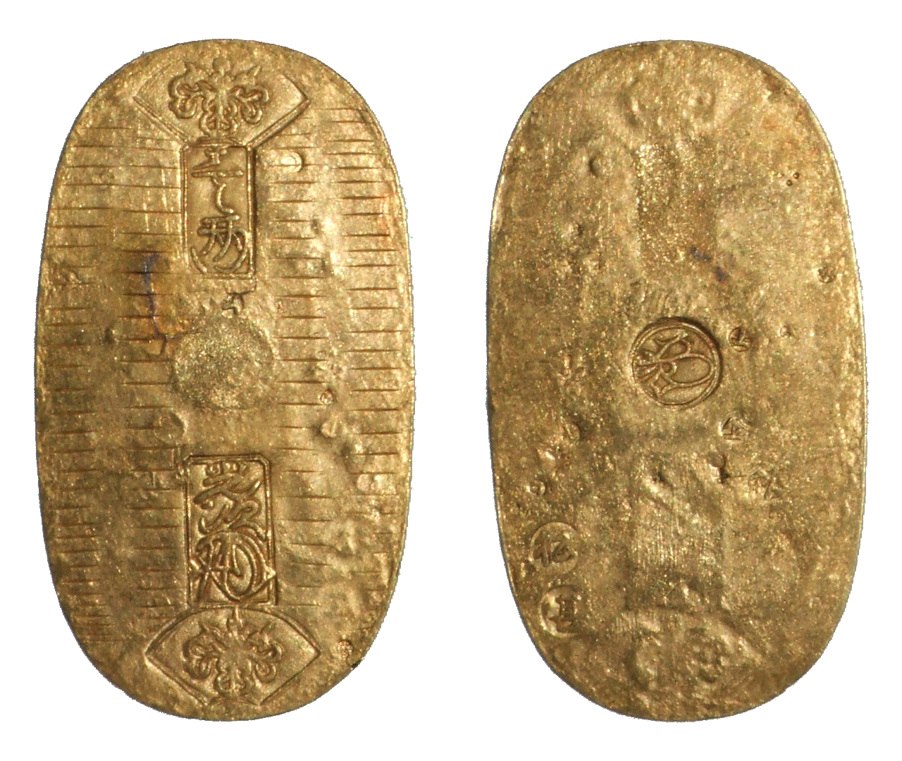 Shotokukoki-koban(gold koban)